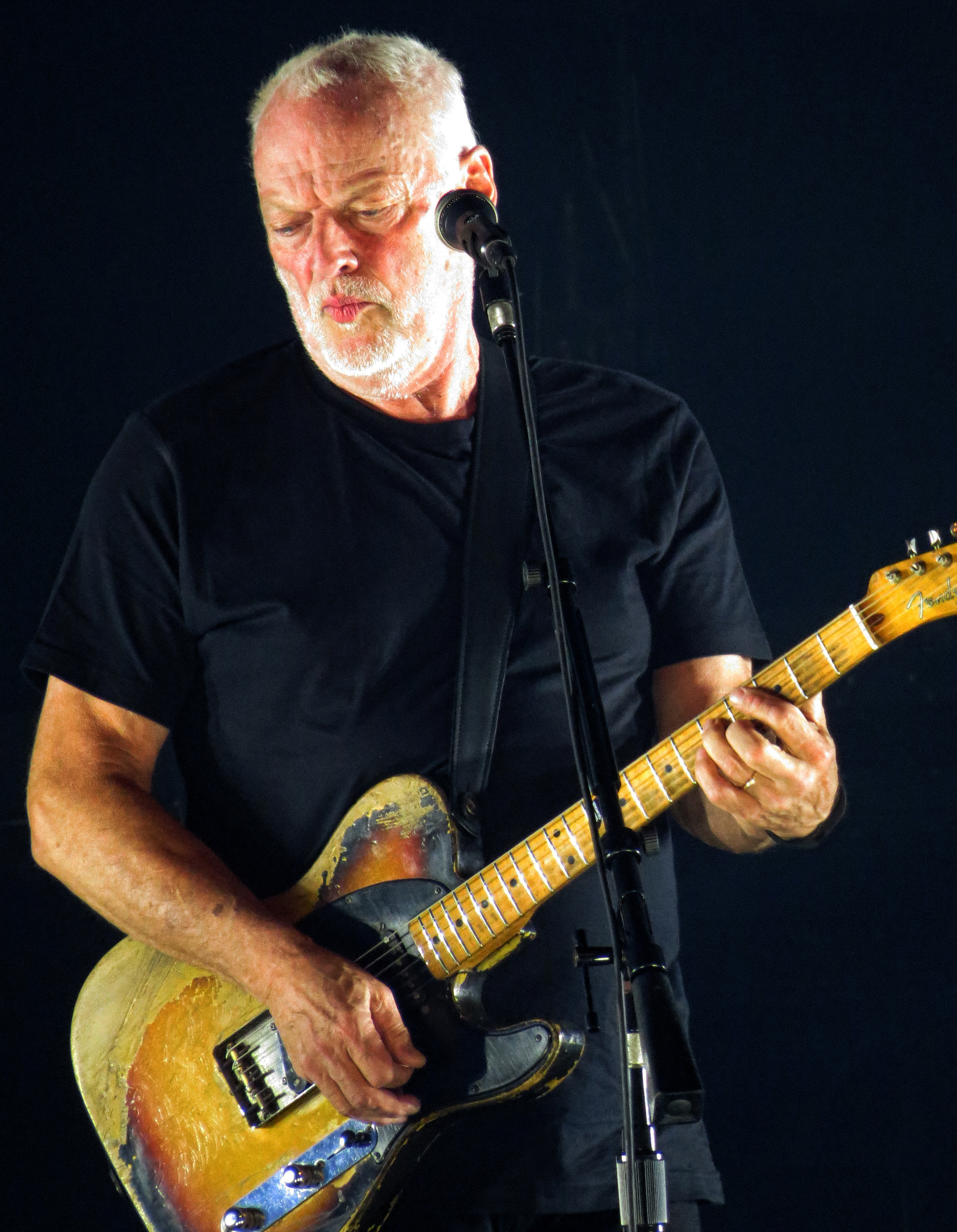 David Gilmour, onstage at Royal Albert Hall, London, October 2015